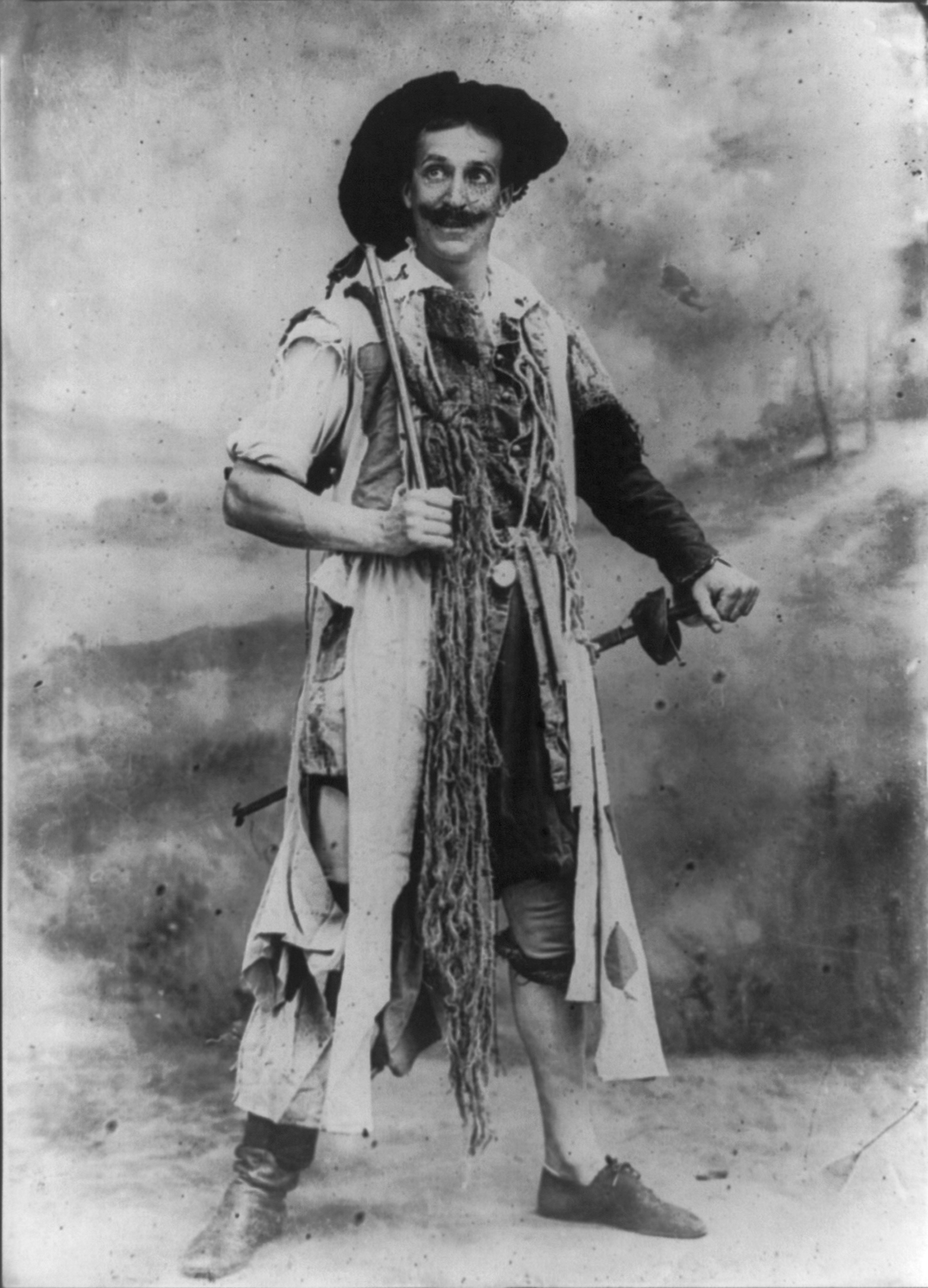 Sir Francis Robert Benson (November 4, 1858–December 31, 1939), commonly known as Frank Benson or F. R. Benson, was a British actor and theatre manager. He founded his own company in 1883 and produced all but two of Shakespeare's plays. Full lgth., standing, facing front; in ragged costume with sword. Knighted by King George for his productions of Shakespeare.